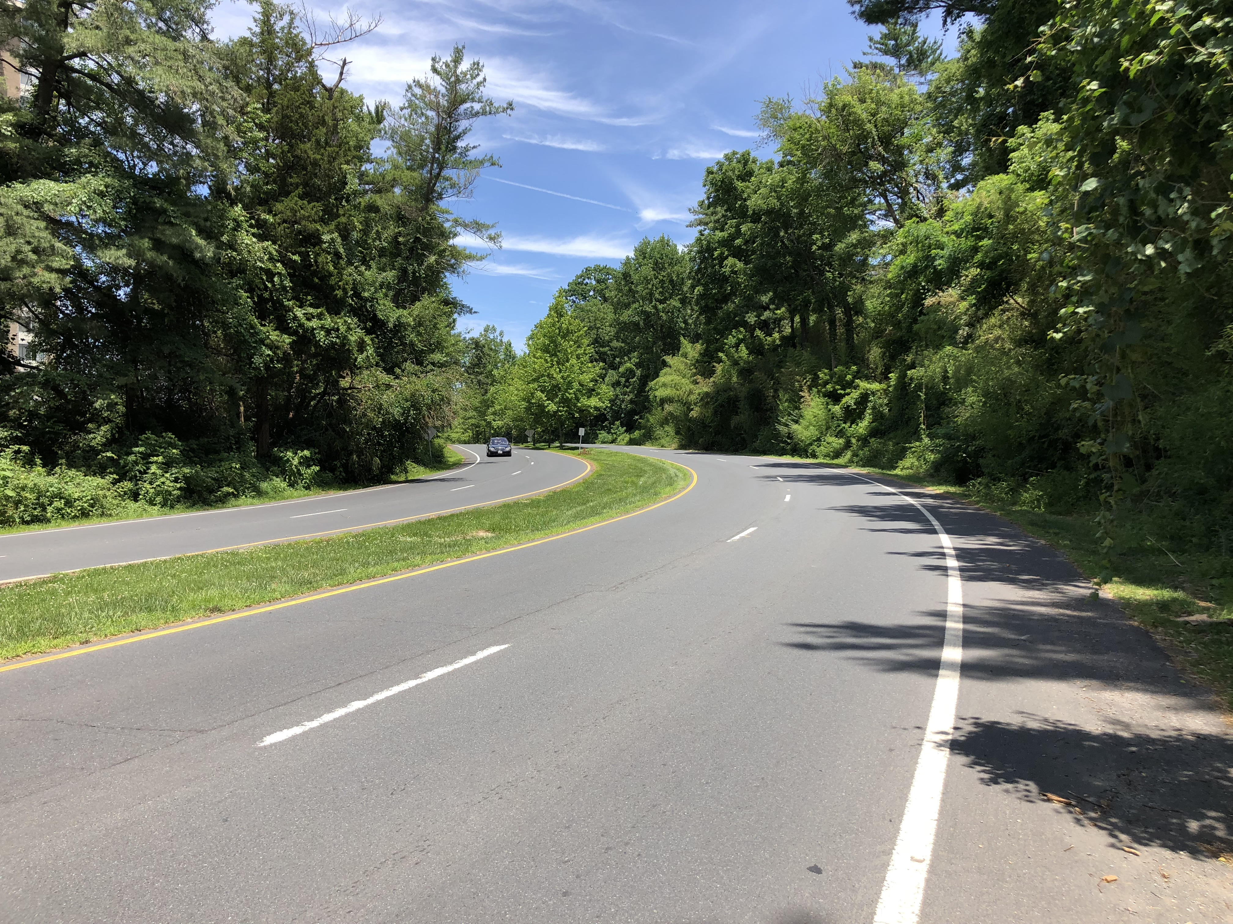 View north along Little Falls Parkway just north of Maryland State Route 190 (River Road) in Somerset, Montgomery County, Maryland